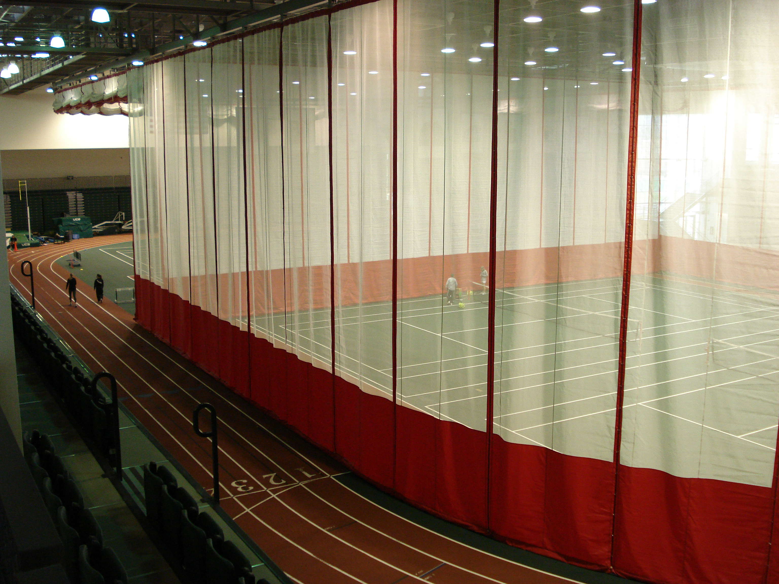 Binghamton University Events Center